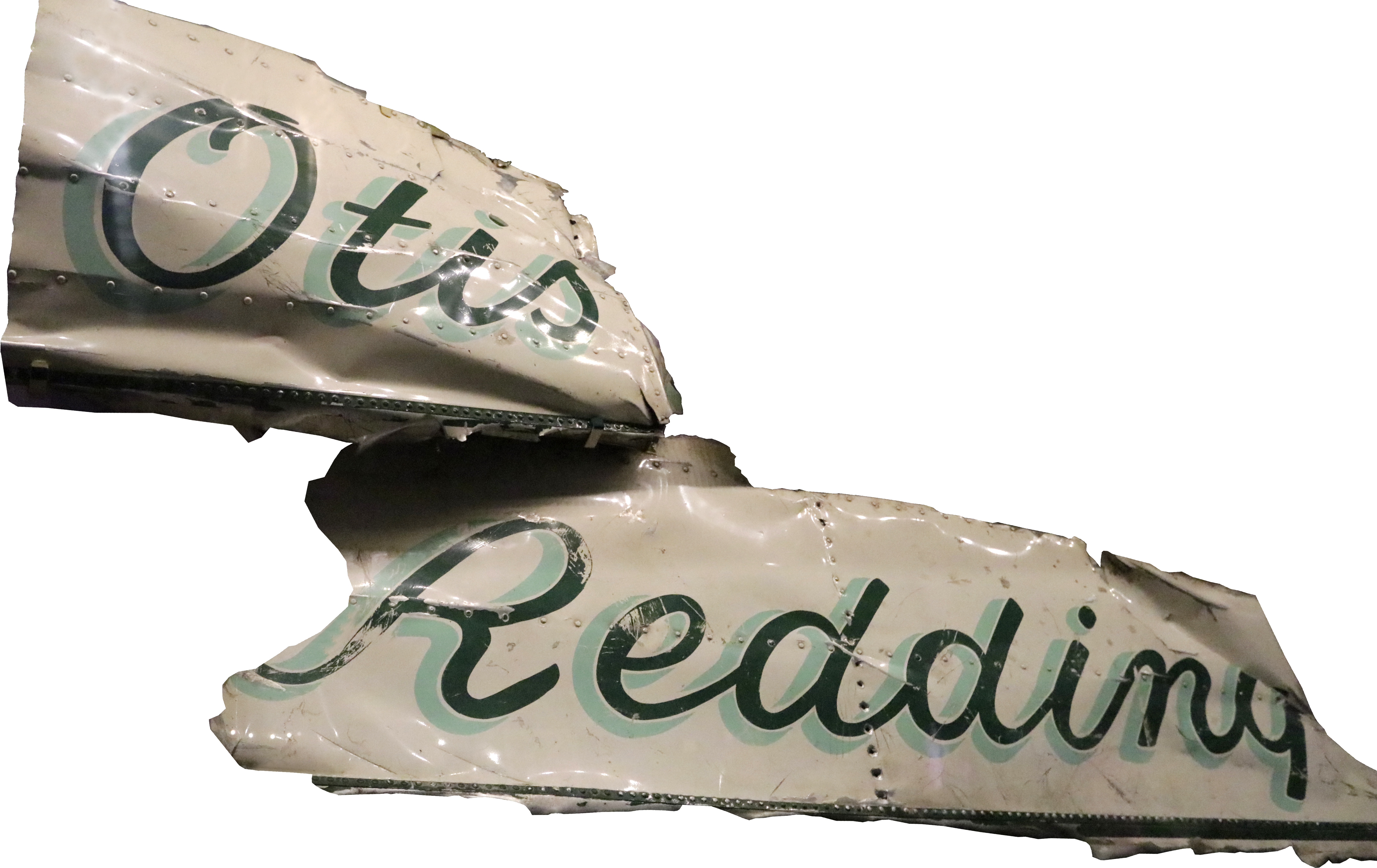 Otis Redding's plane parts (Rock and Roll Hall of Fame, Cleveland, OH).